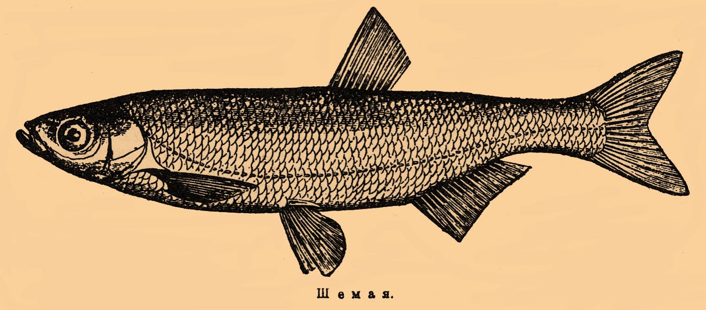 Illustration from Brockhaus and Efron Encyclopedic Dictionary (1890—1907)